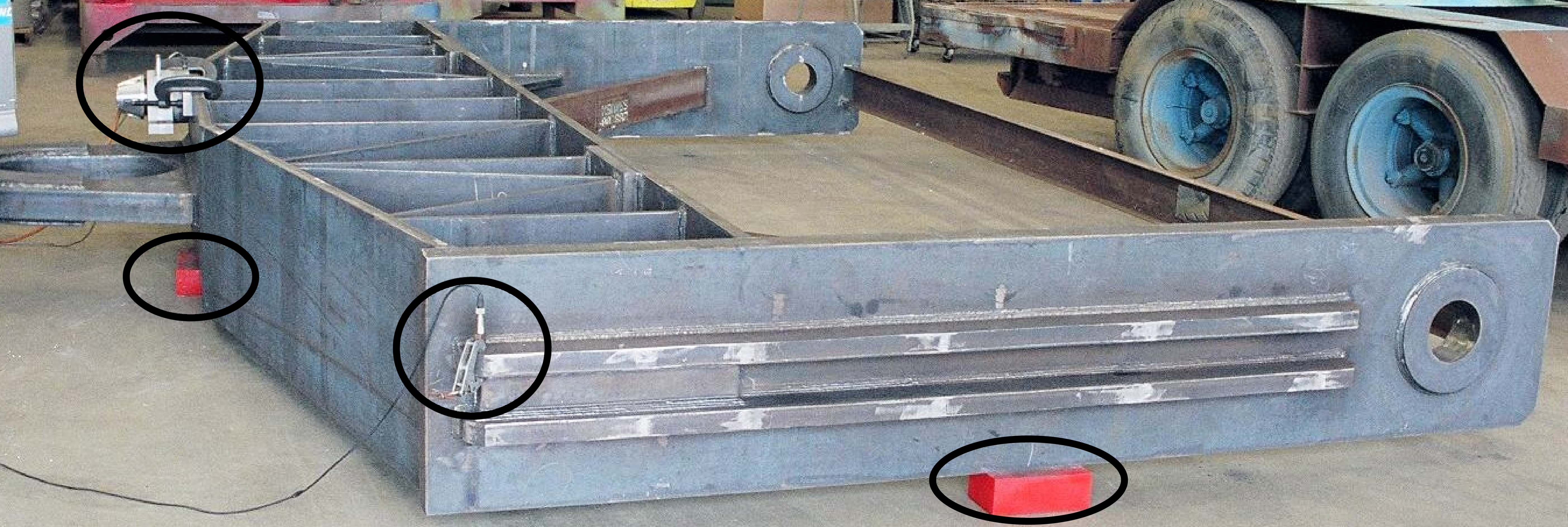 Mile Steel Weldments. Vibratory stress relief was performed on this mild steel weldment, weighing almost 12 tons